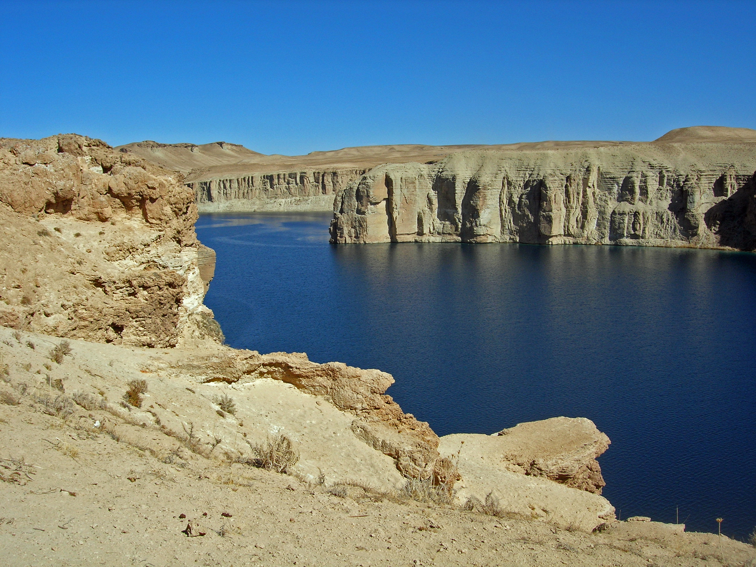 A good picture of Lake Band-e-Amir in Afghanistan.